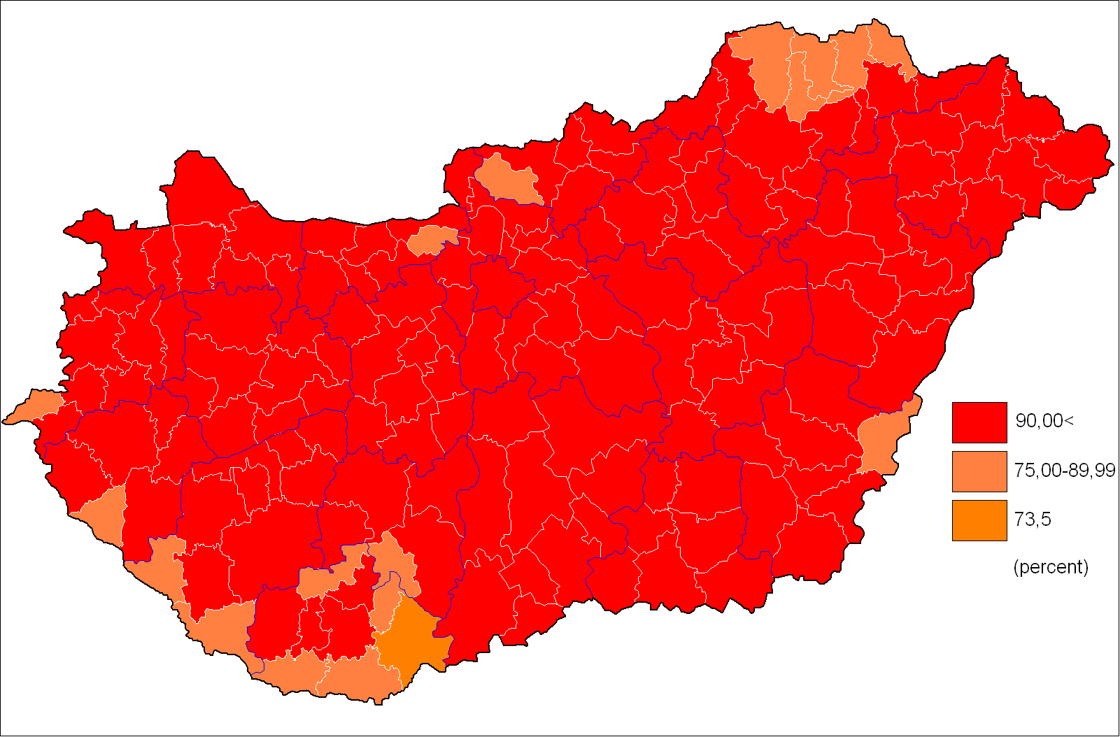 Hungarians in subregions (percentage, Hungary)